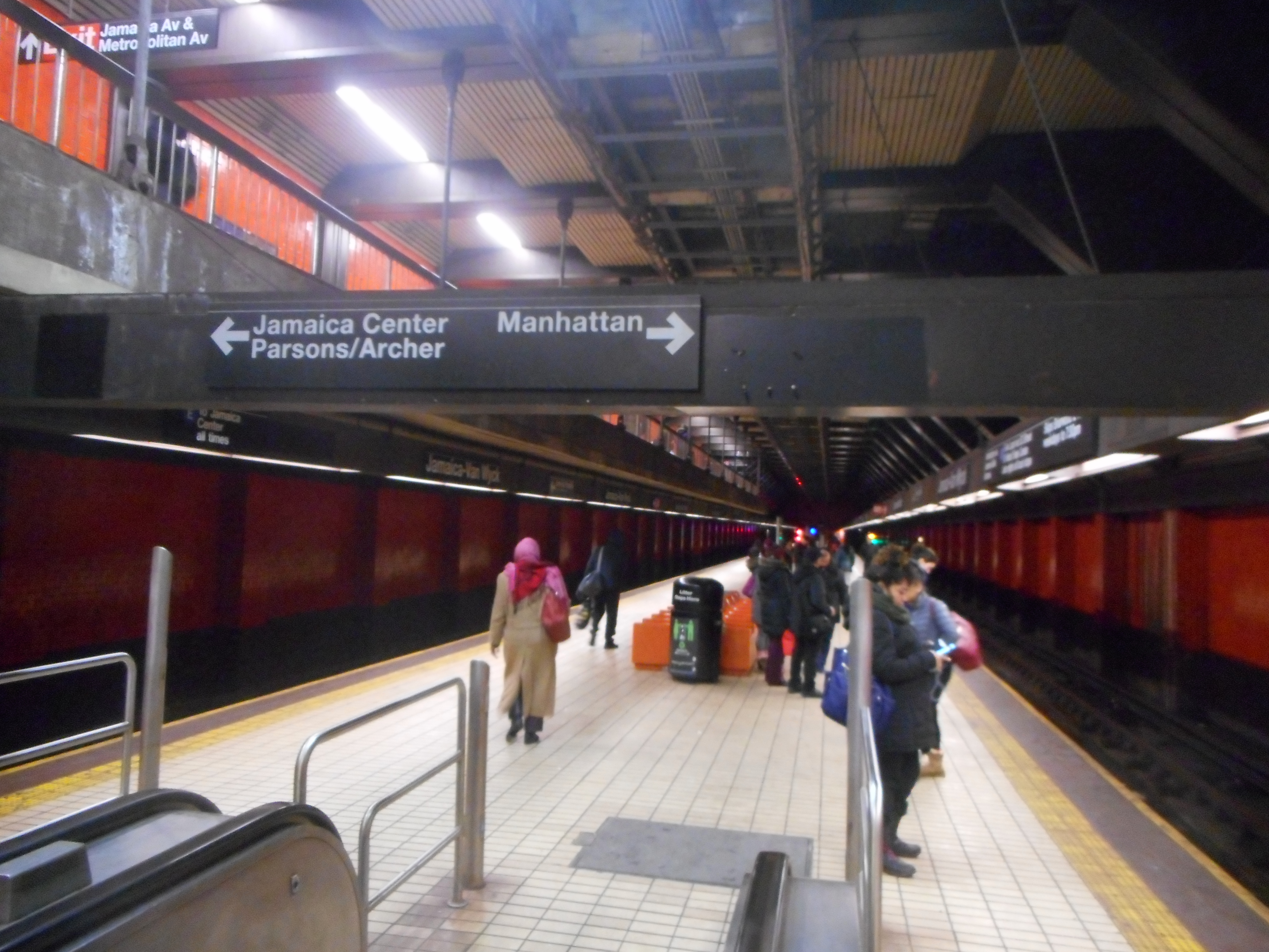 Additional images of the Jamaica – Van Wyck Subway station on the IND Archer Avenue Line in the Richmond Hill section of Queens, New York City. Further details and a possible rename to come later.